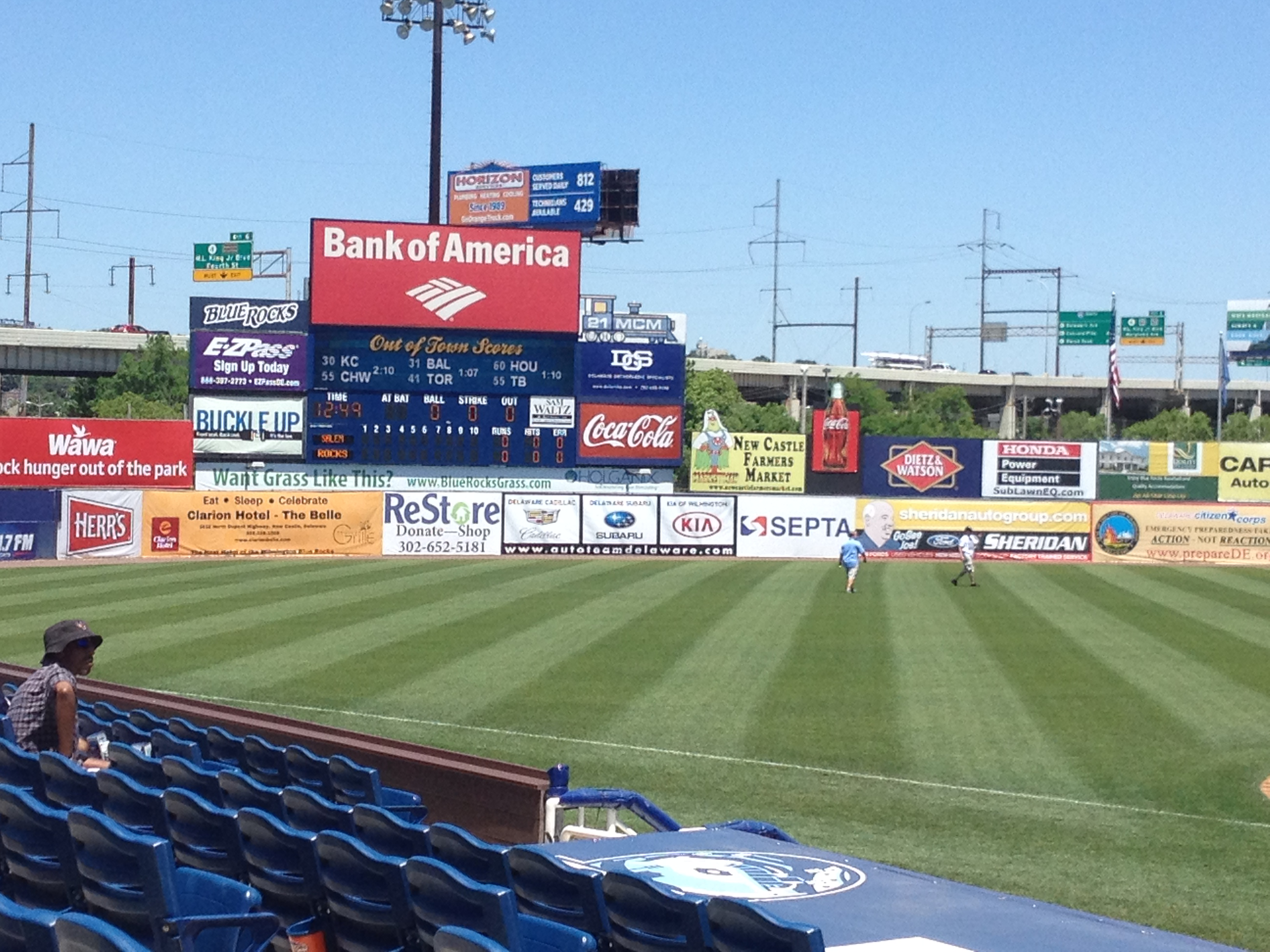 The left field outfield and scoreboard at Frawley Stadium in Wilmington, Delaware.